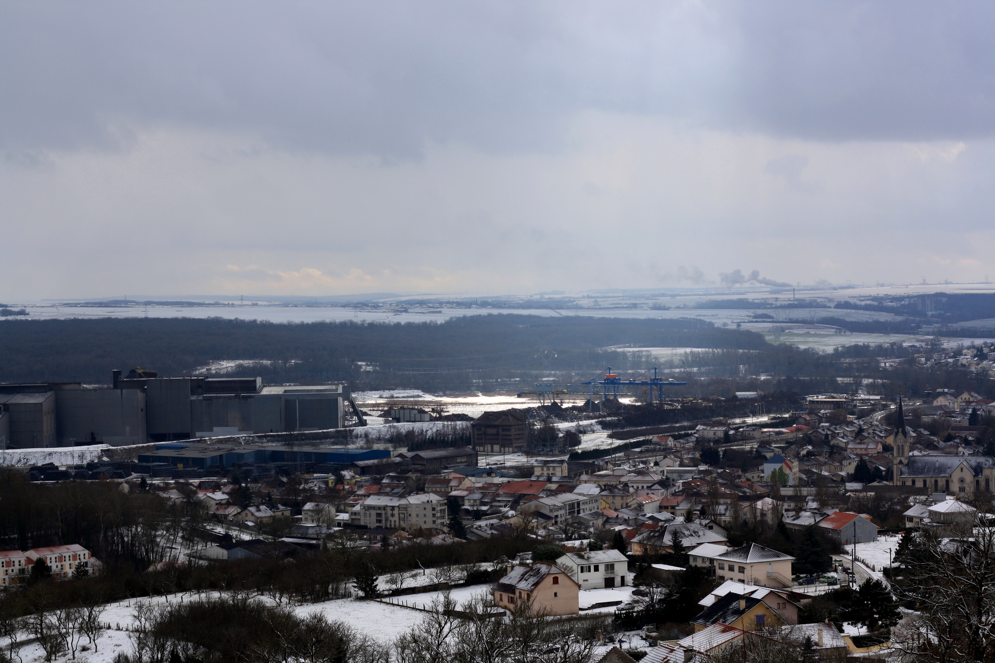 Neuves-Maisons, panorama depuis la forêt de Haye vers les usines et la vallée de la Moselle .